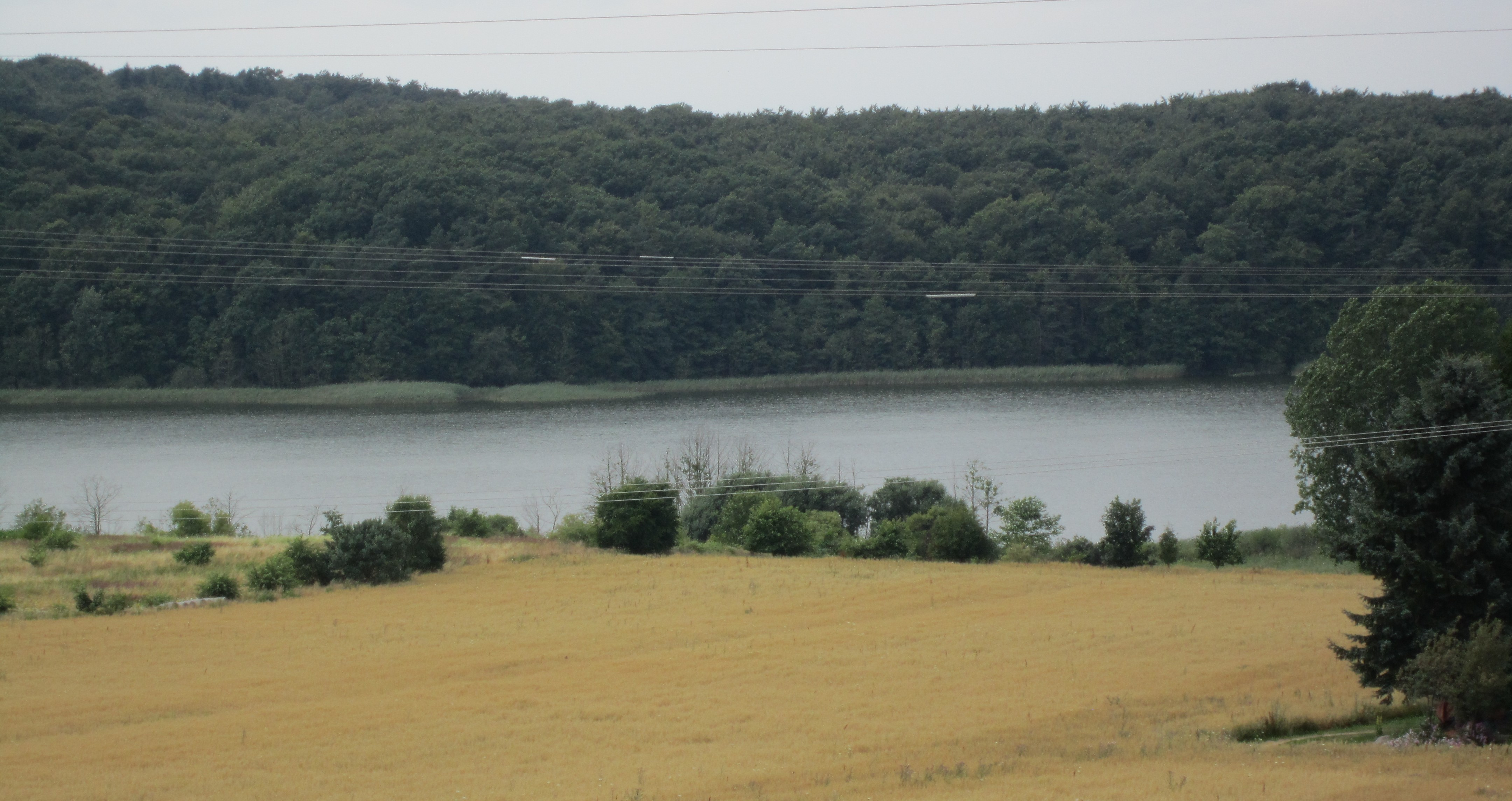 Lake Kleiner Krebssee on Usedom, viewed from Alt Sallenthin